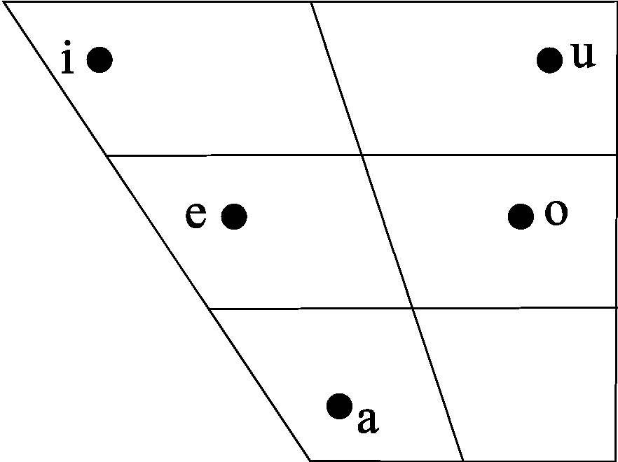 IPA vowel Chart for Jamaican Creole